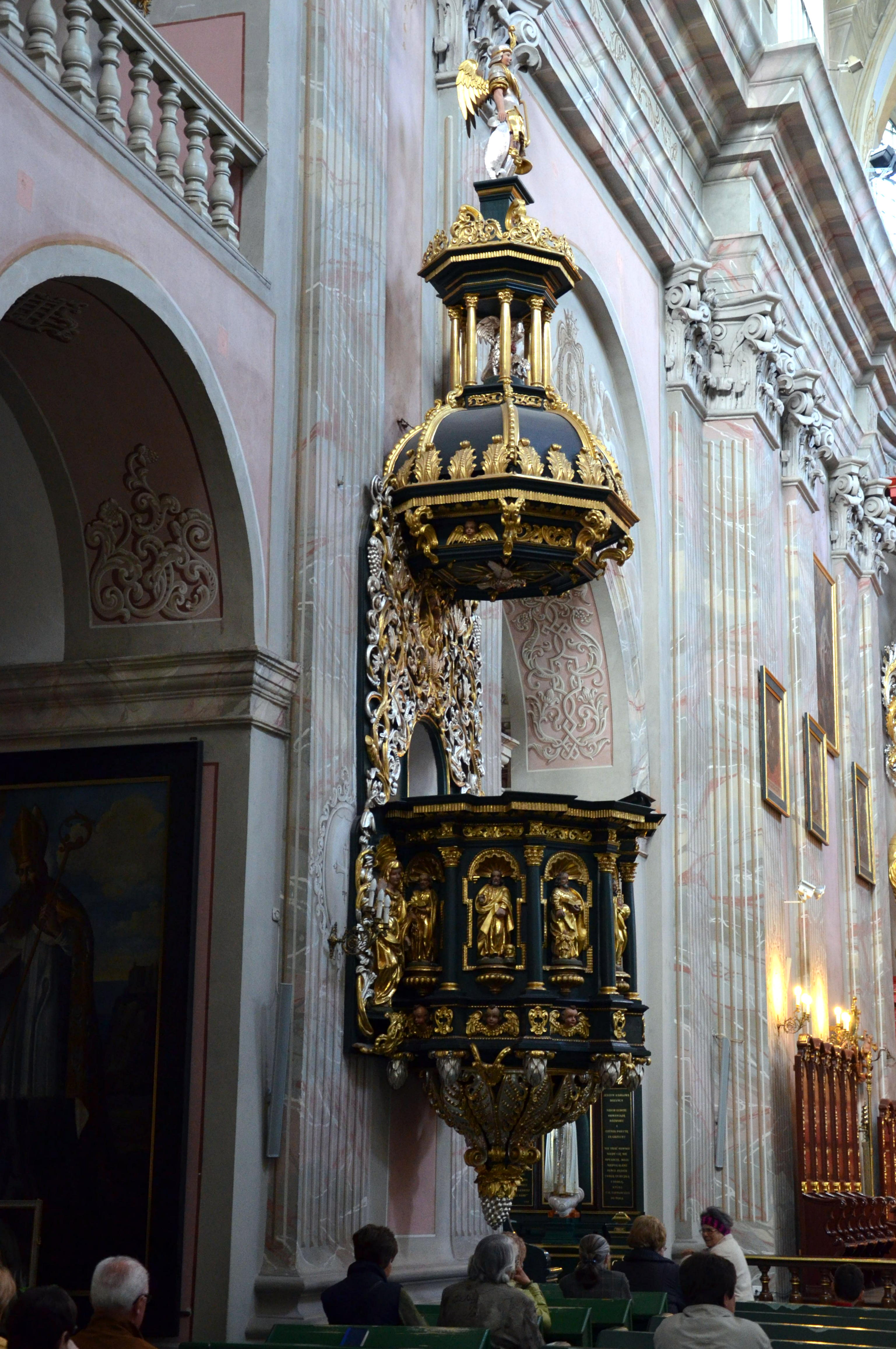 Church of the Transfiguration in Brzozów